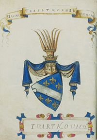 Coat of arms of the Bosnian king Tvrtko